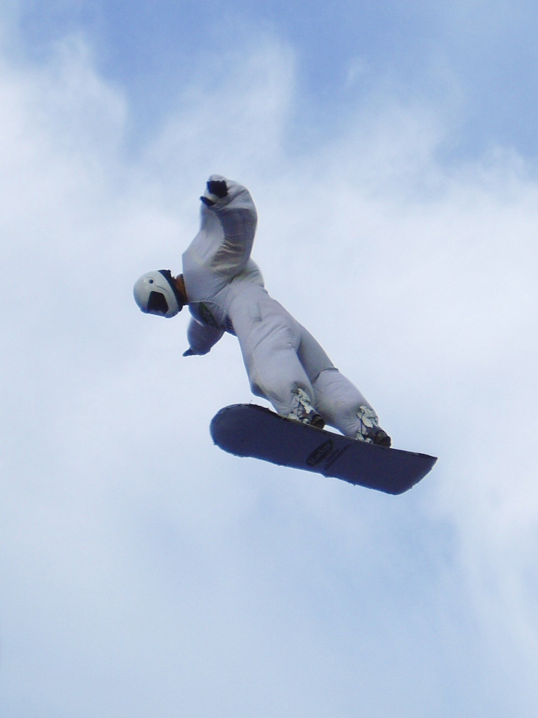 Skydiving simulator in Russell Square Gardens, London